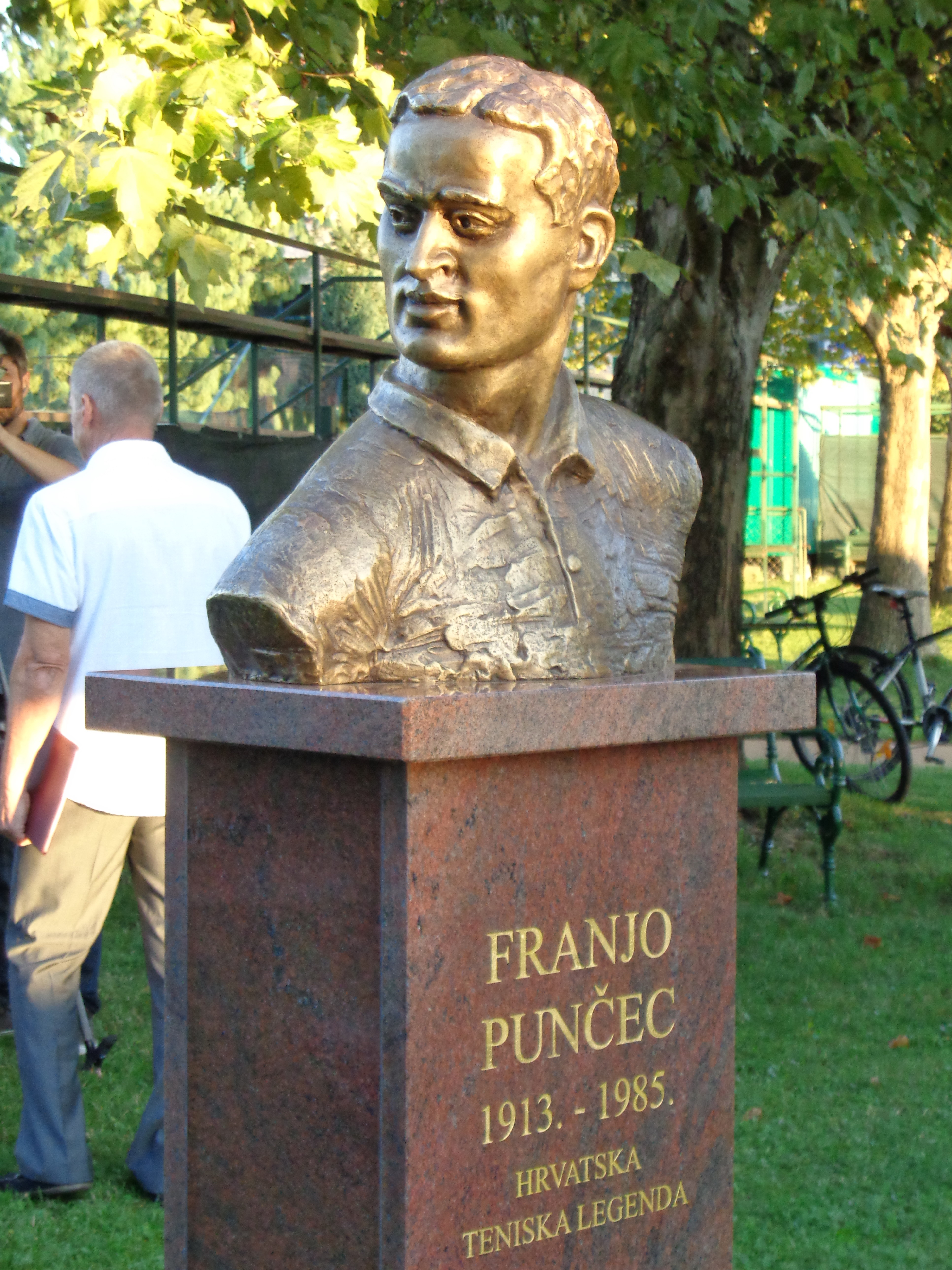 Franjo Punčec (1913-1985), top-level Croatian tennis player - bust in Čakovec, Croatia, made by musician and sculptor Boris Leiner